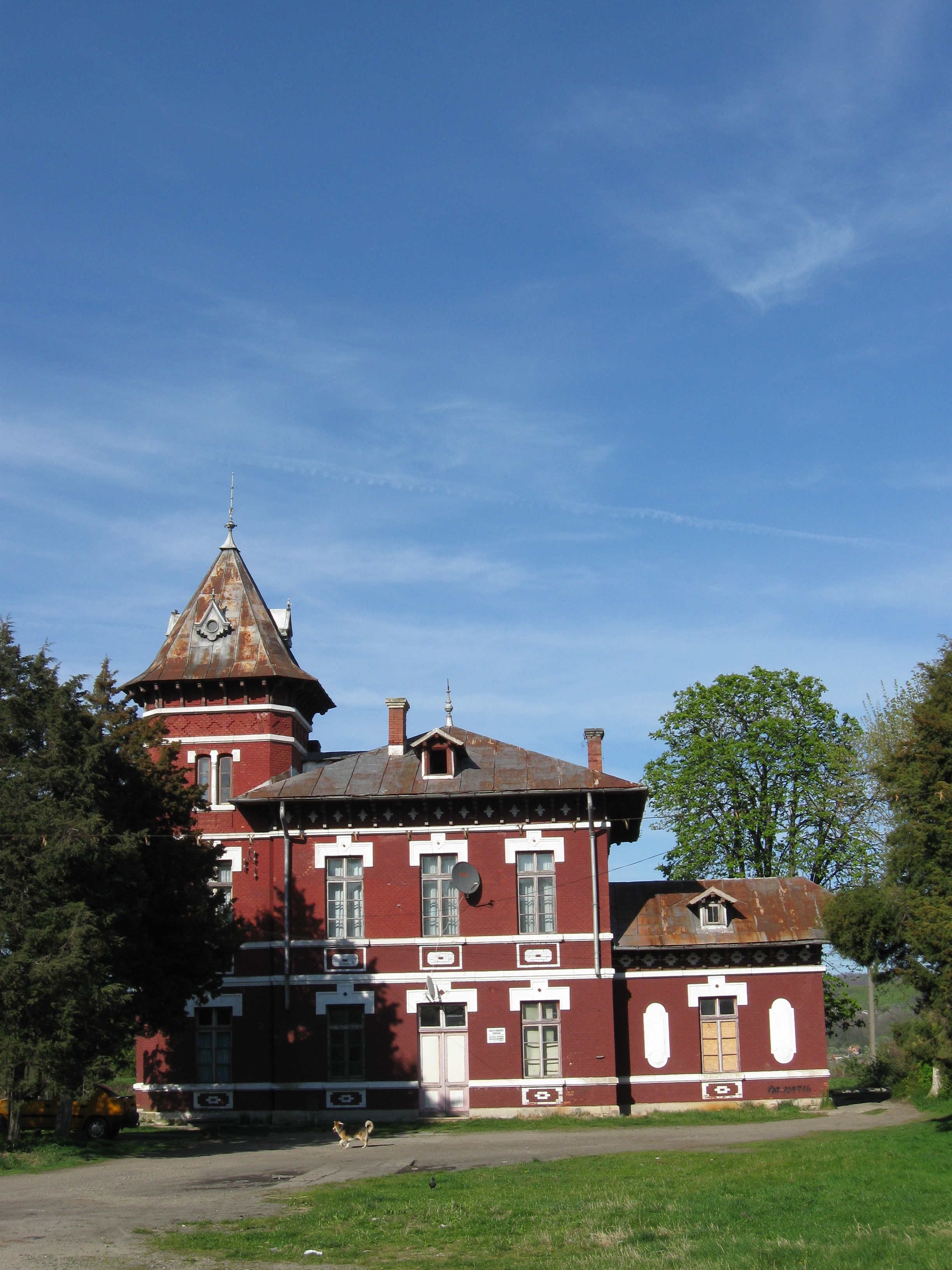 Photograph of the Romanian Railways station in Merişani, Argeş County, taken from the west side. Building based on French model and erected by the Romanian state in 1898, in tandem with all other stations on the Curtea de Argeş-Piteşti line (with which it shares the basic design). One of the earliest railway building projects in Romania, architect(s) uncredited. See: Adriana Gândilă, "Salvaţi Calea Ferată Piteşti - Curtea de Argeş!", in Jurnalul de Argeş, November 11, 2010.